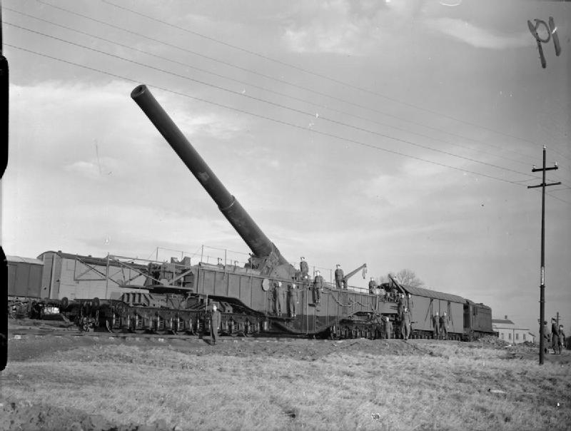 IWM caption : "'Boche-Buster', a 250-ton 18-inch railway gun, Catterick, 12 December 1940. The gun later travelled down to Kent to take up position at Bishopsbourne on the Elham to Canterbury Line, taken over by the Army for the duration." The gun was in fact an 18 inch howitzer.